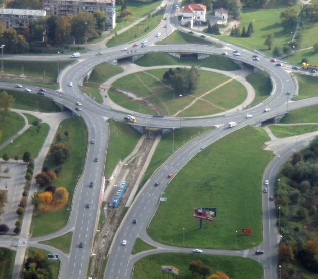 Western (Remetinec) Rotary in Zagreb, Croatia